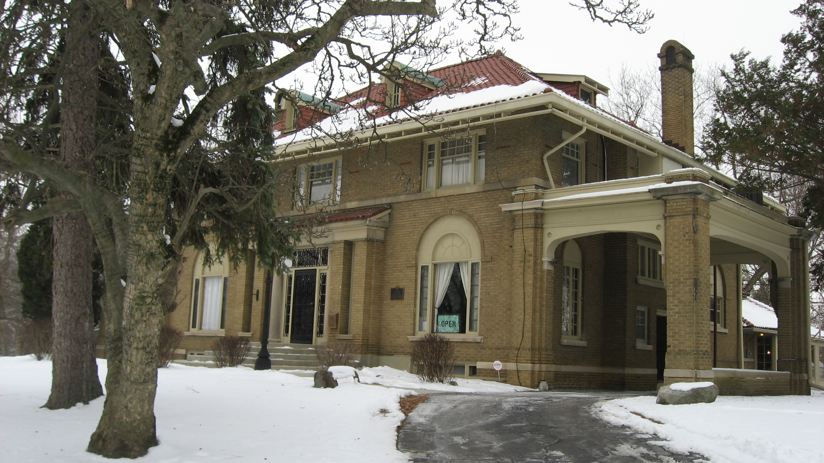 Front of the Elwood Haynes House, located at 1915 S. Webster Street in southwestern Kokomo, Indiana, United States. Built in 1916 as the home of Elwood Haynes and later converted into a museum, it is listed on the National Register of Historic Places.